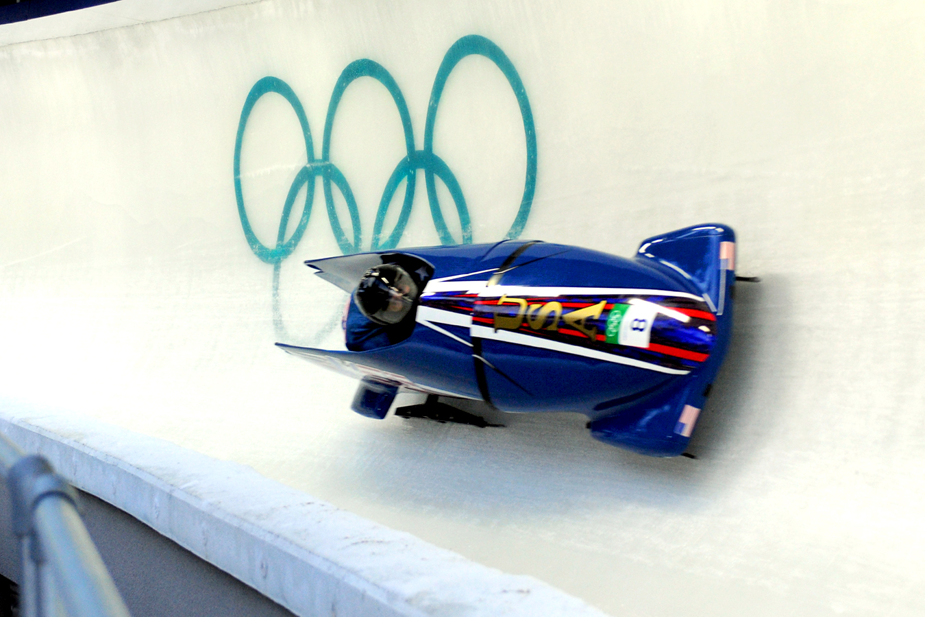 U.S. Army Sgt. John Napier drives the 12th fastest time of 52.28 seconds with Steve Langton in the first heat of the Olympic two-man bobsled competition at Whistler Sliding Centre in British Columbia, Feb. 20, 2010. After two of four heats, the USA II sled was in 11th place with a cumulative time of 1:44.73. U.S. Army photo by Tim Hipps, FMWRC Public Affairs See more at Official U.S. Army Olympics site